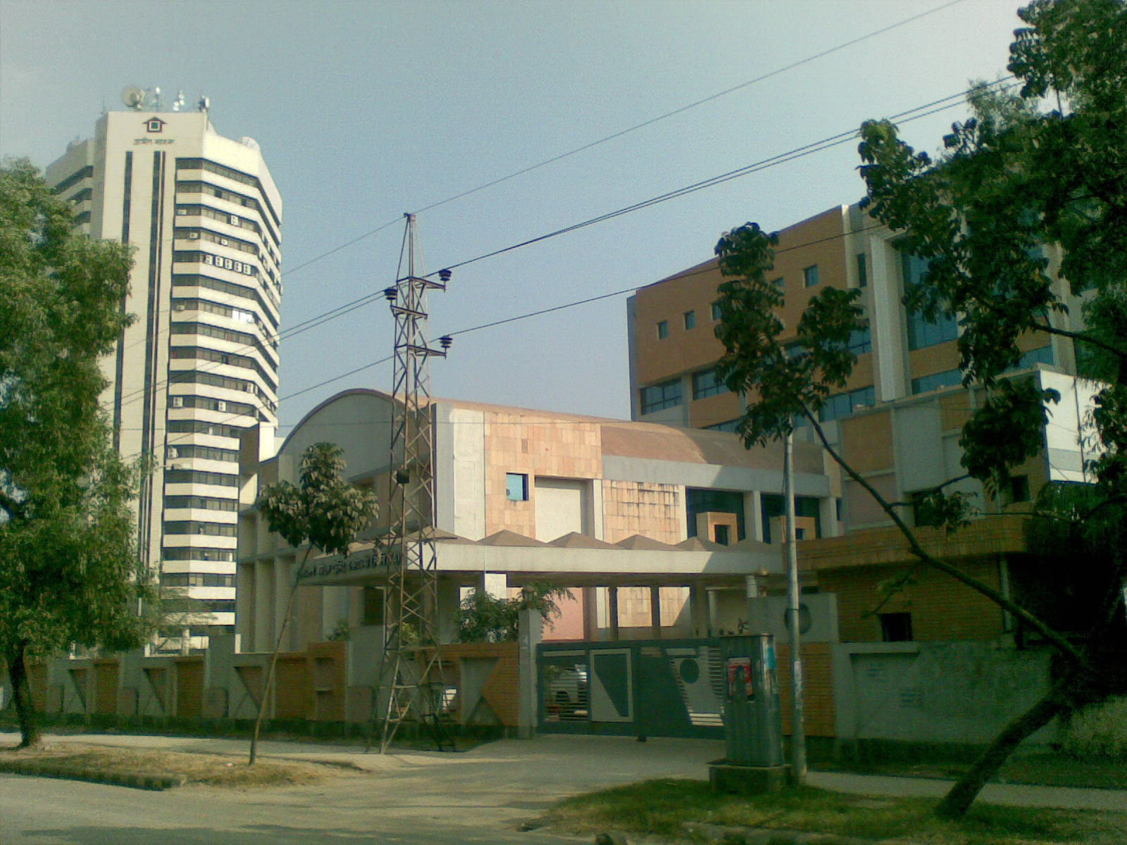 Location: Mirpur, Section: 2, Dhaka.